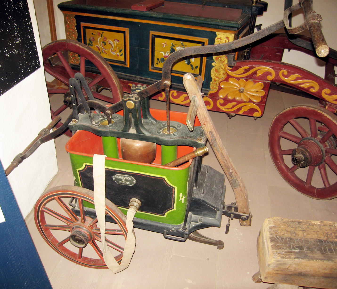 Historical Fire engine buld in 1862 at Aachen Ith was a gift from Aachen-Münchener Feuer-Versicherung to the city of Biedenkopf